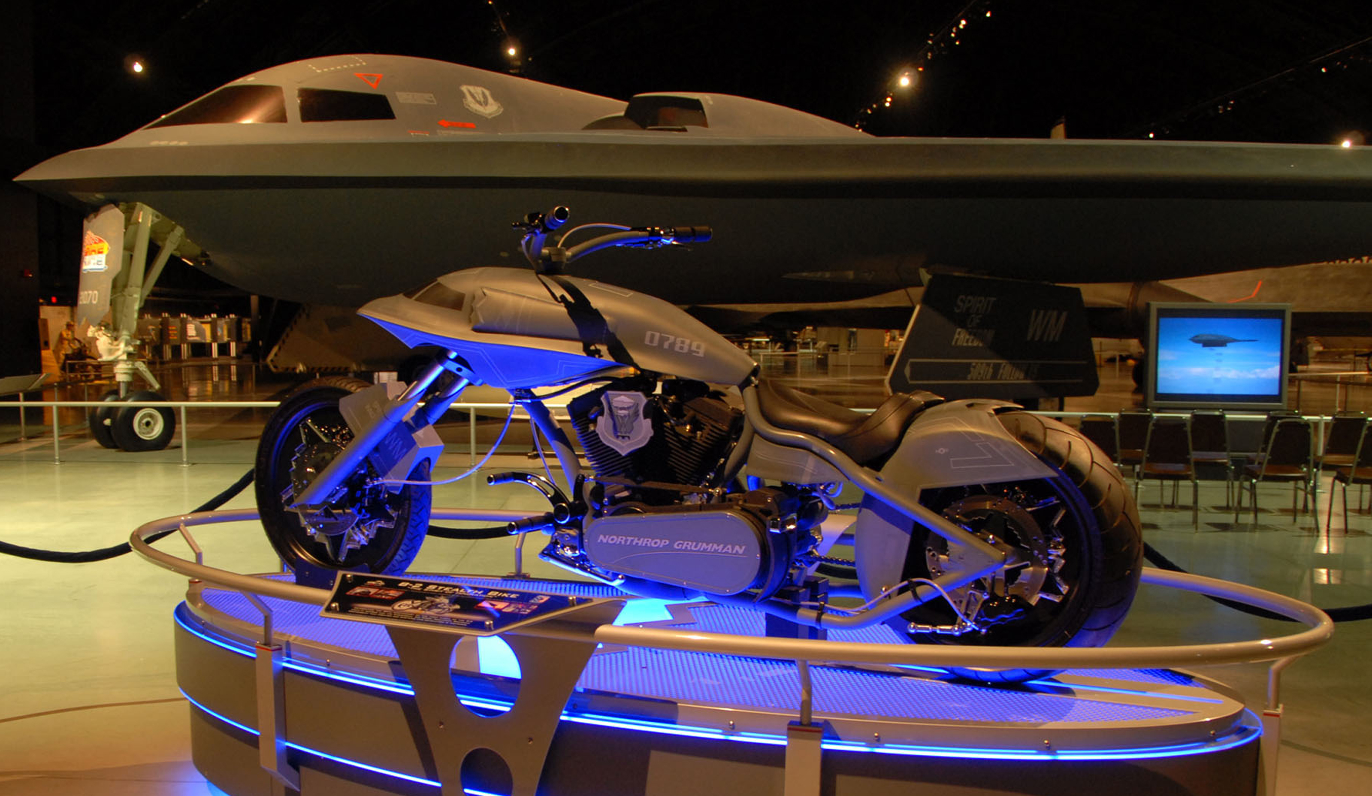 A special B-2 Spirit motorcycle is on display next to the B-2 aircraft in the National Museum of the U.S. Air Force Cold War Gallery May 2 to 28 in Dayton, Ohio. The display commemorates the 20th anniversary of the first flight of the B-2. (U.S. Air Force photo/Jeff Fisher)